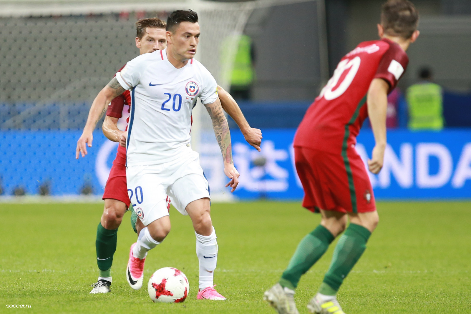 Portugal - Chile, 28 Jun 2017